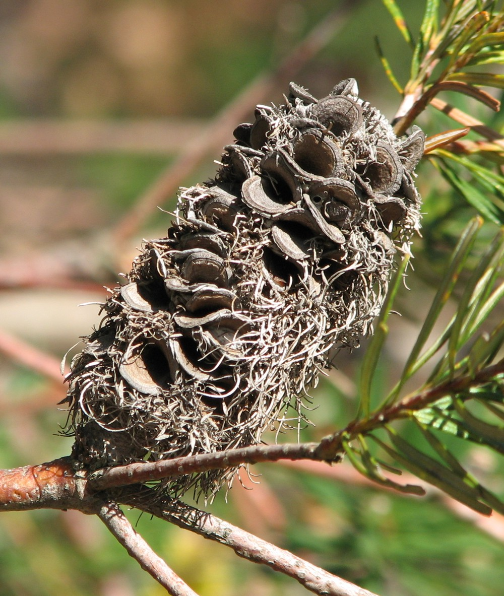 Banksia marginata "cone", Blind Bight, Victoria, Australia